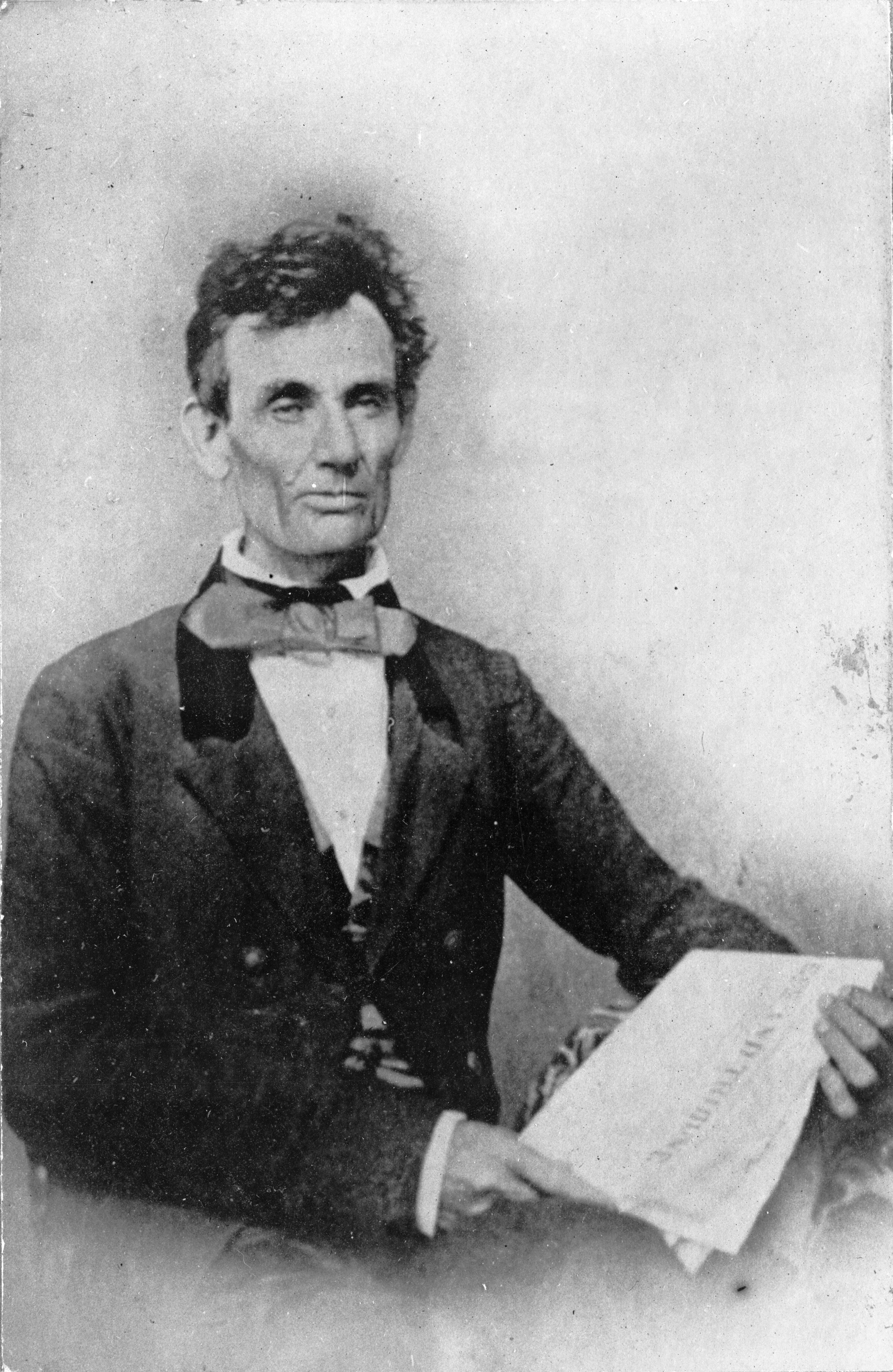 Copy of a daguerreotype of Abraham Lincoln holding the antislavery newspaper Staat Zeitung.